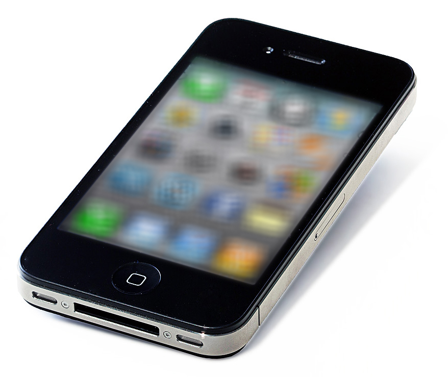 Iphone 4.